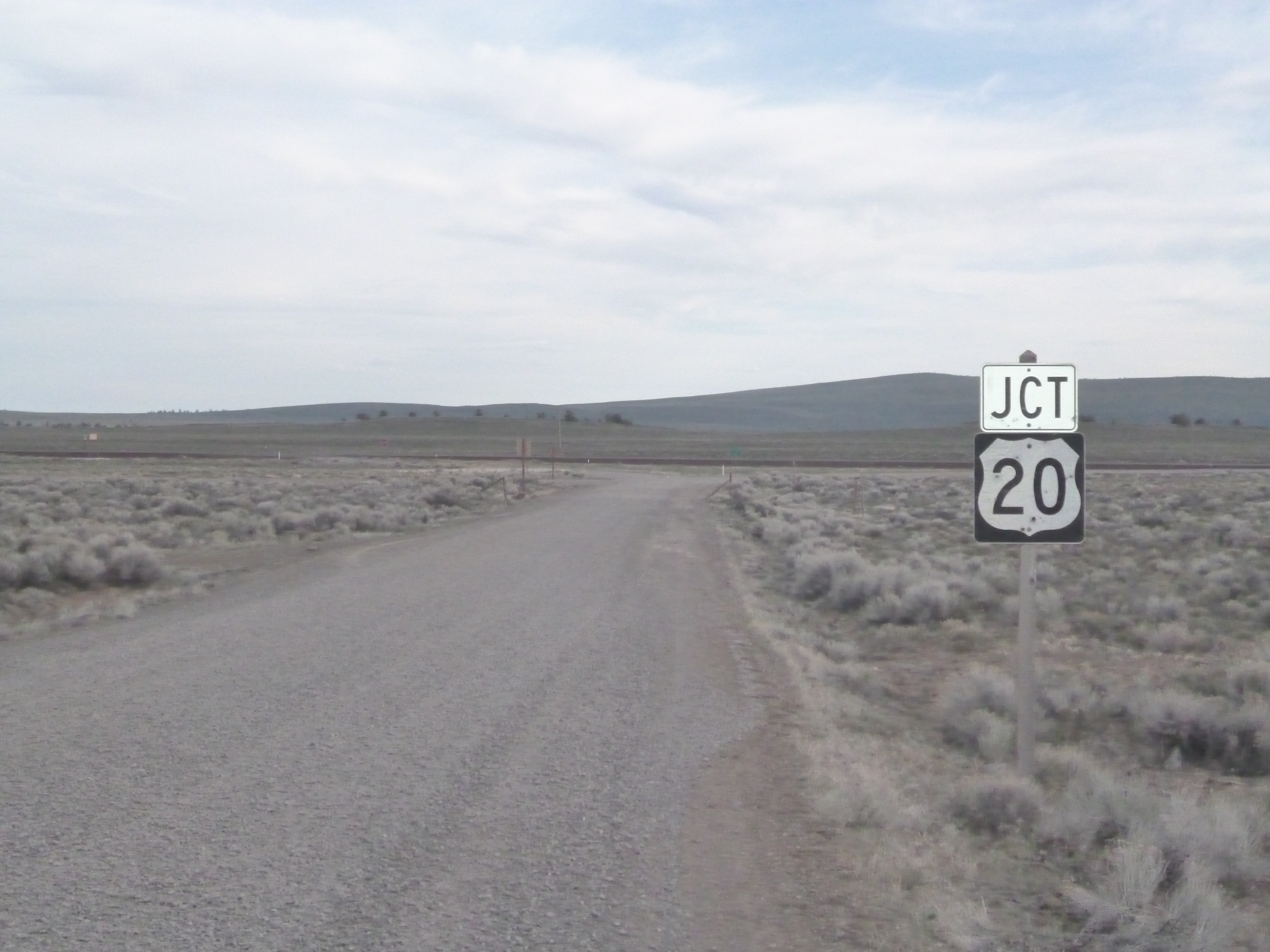 Southern Terminus of Oregon Route 27 near Brothers, Oregon.